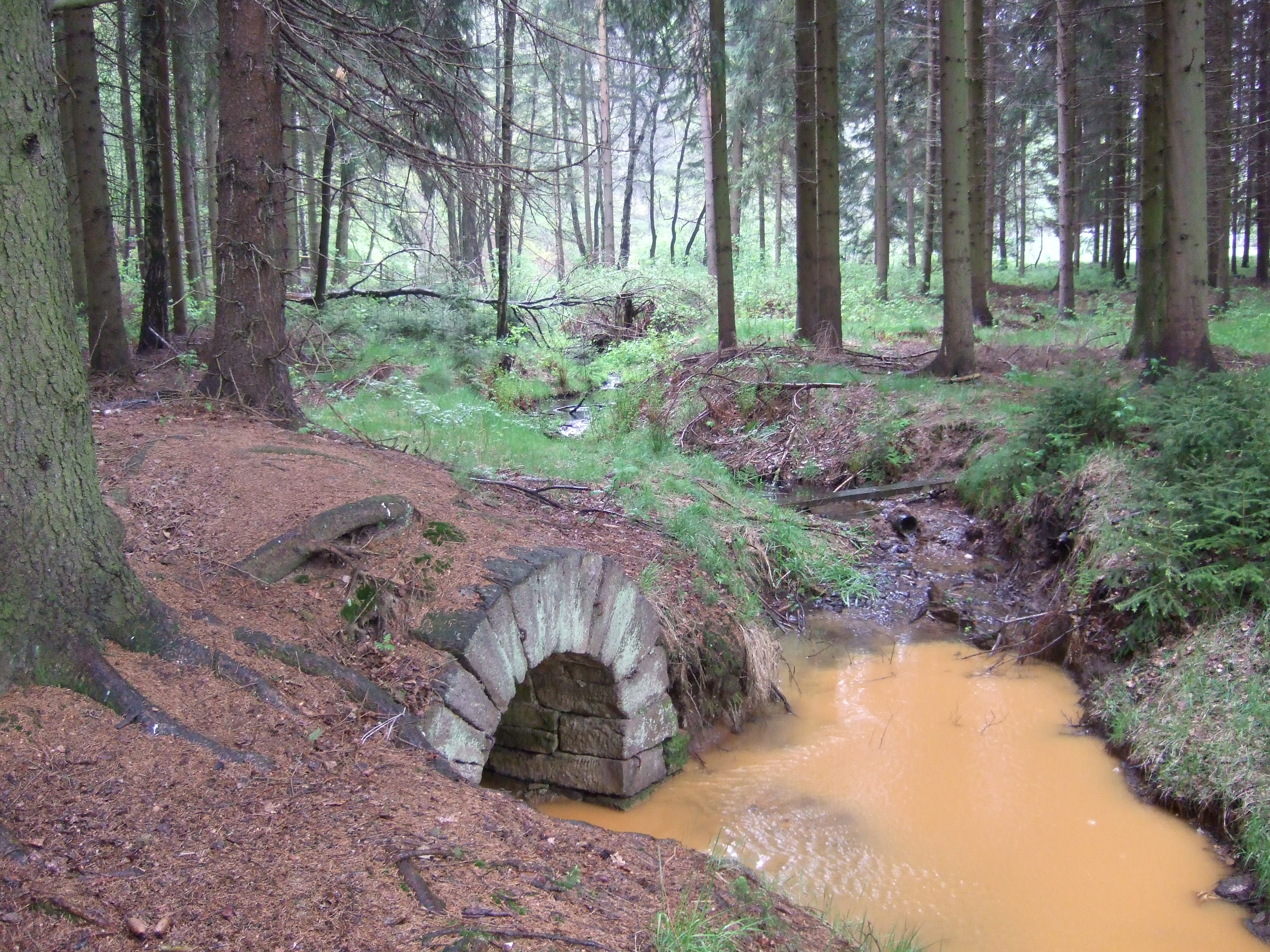 Trench of the drain of Thelersberger Stolln (Thelersberg Adit) flowing into a minor tributary of the Großen Striegis (Big Striegis) with visible ochre colouring due to washed out minerals (source name: dscf037132_Mundloch_Abzuggraben_Thelersberger_Stolln_an_Striegis.jpg)